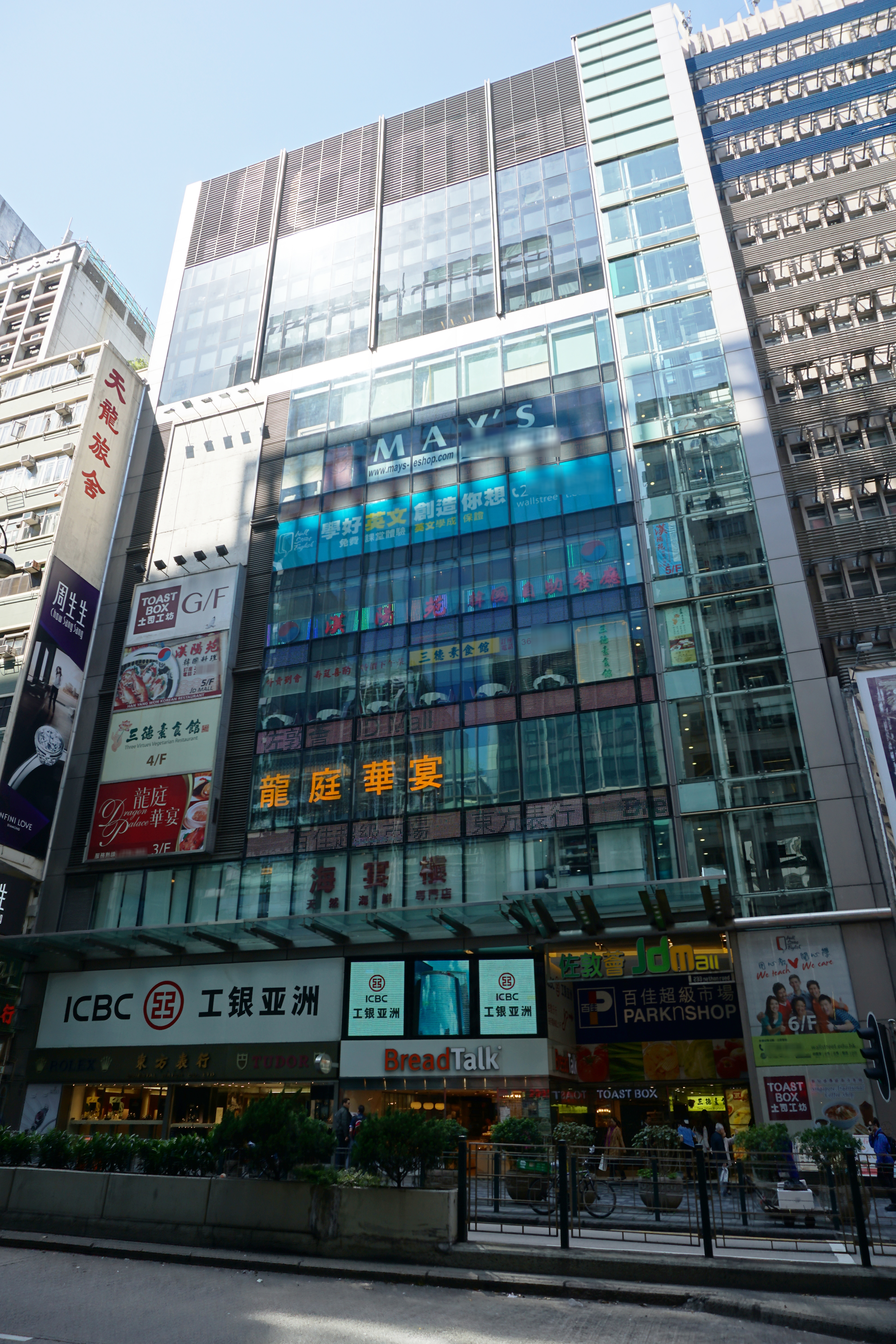 JD Mall in Jordan, Hong Kong.